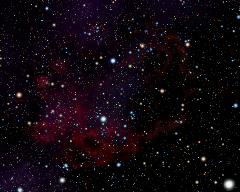 Image simulation of the Gum Nebula